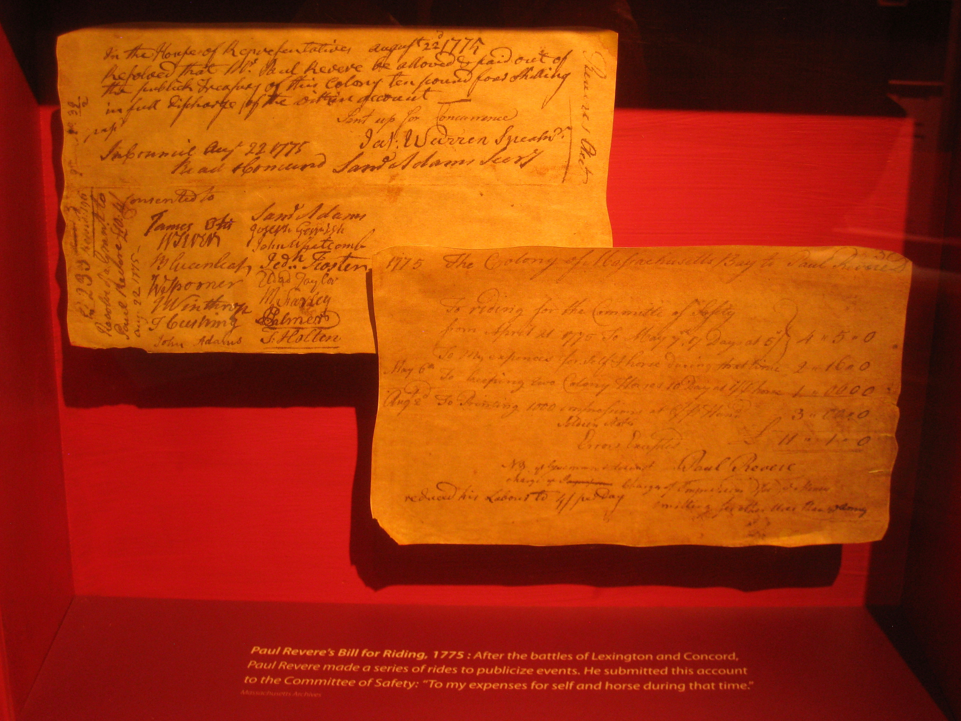 Paul Revere's bill for riding, 1775. Document exhibited in the Commonwealth Museum, in the Massachusetts Archives, Boston, Massachusetts, USA.